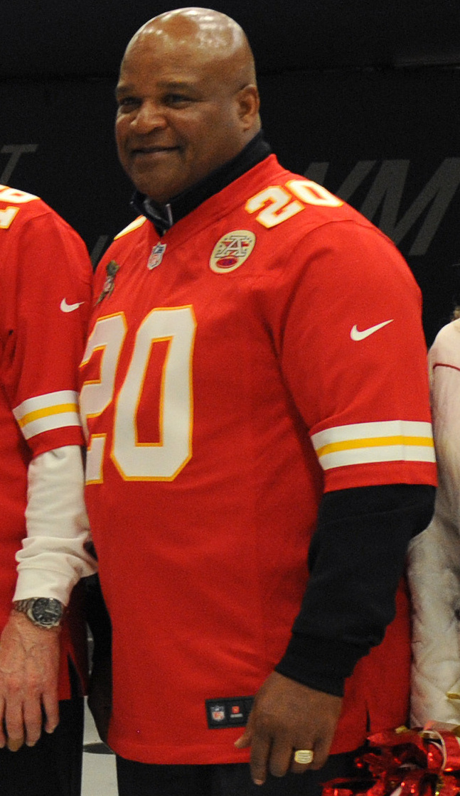 Kansas City Chiefs general manager John Dorsey presents Col. Matthew Brooks, 509th Bomb Wing vice commander, with a souvenir football at Whiteman Air Force Base, Mo., Nov. 18, 2014. The Chiefs annual visit is part of their community outreach program. (U.S. Air Force photo by Airman 1st Class Joel Pfiester/Released)